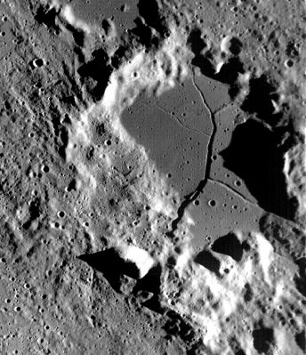 LROC image WAC No. M116248983ME.